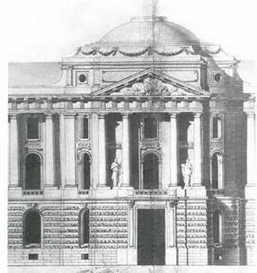 Jean-Baptiste Vallin de la Mothe. The project of the Academy of Fine Arts. Detail of the facade. 1773